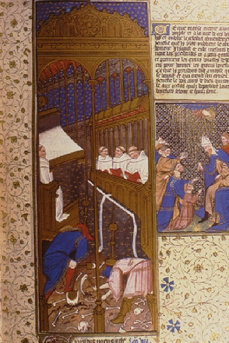 Office of the dead (Monks chants over coffin)